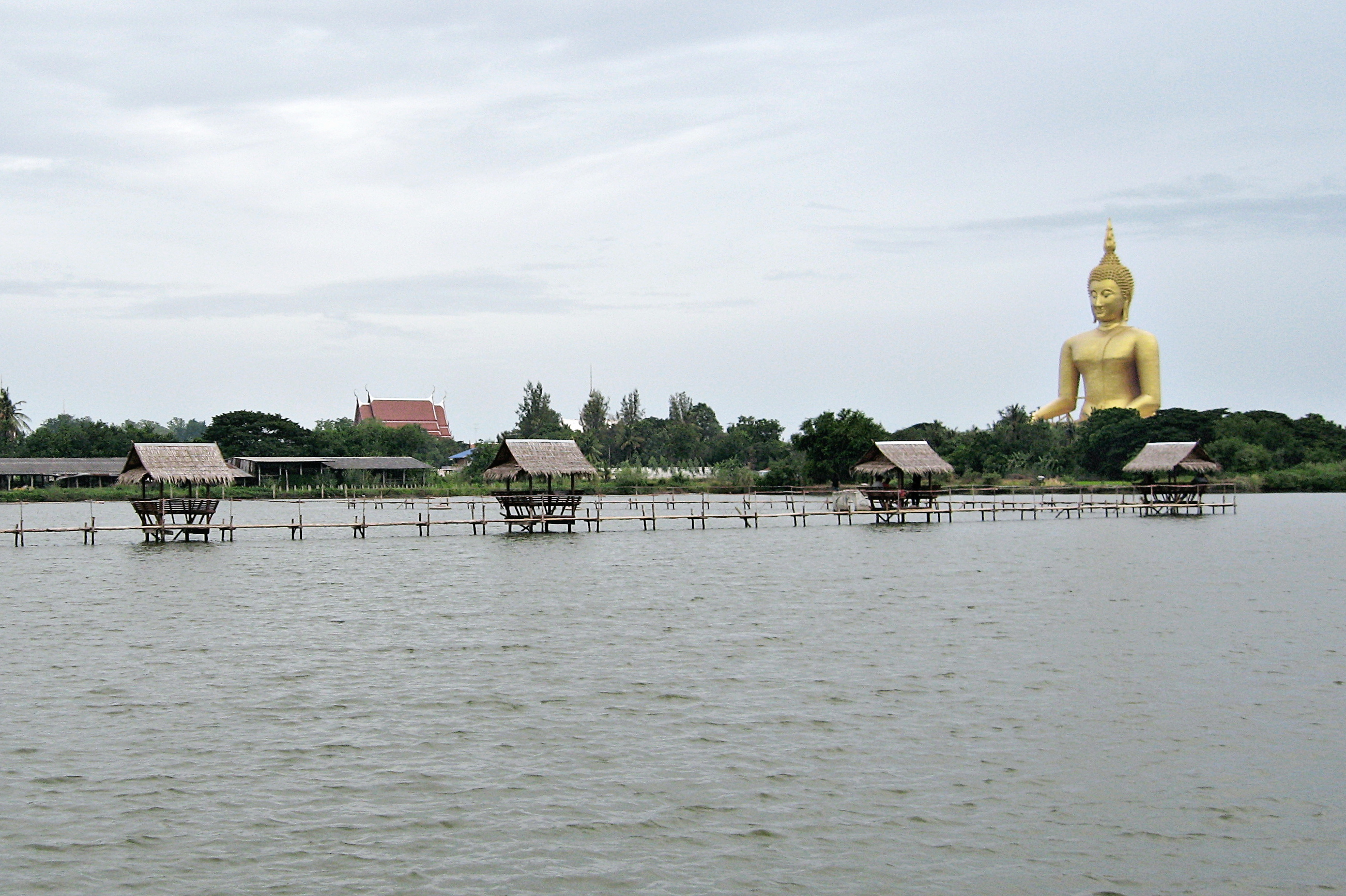 Buddha on the Landscape